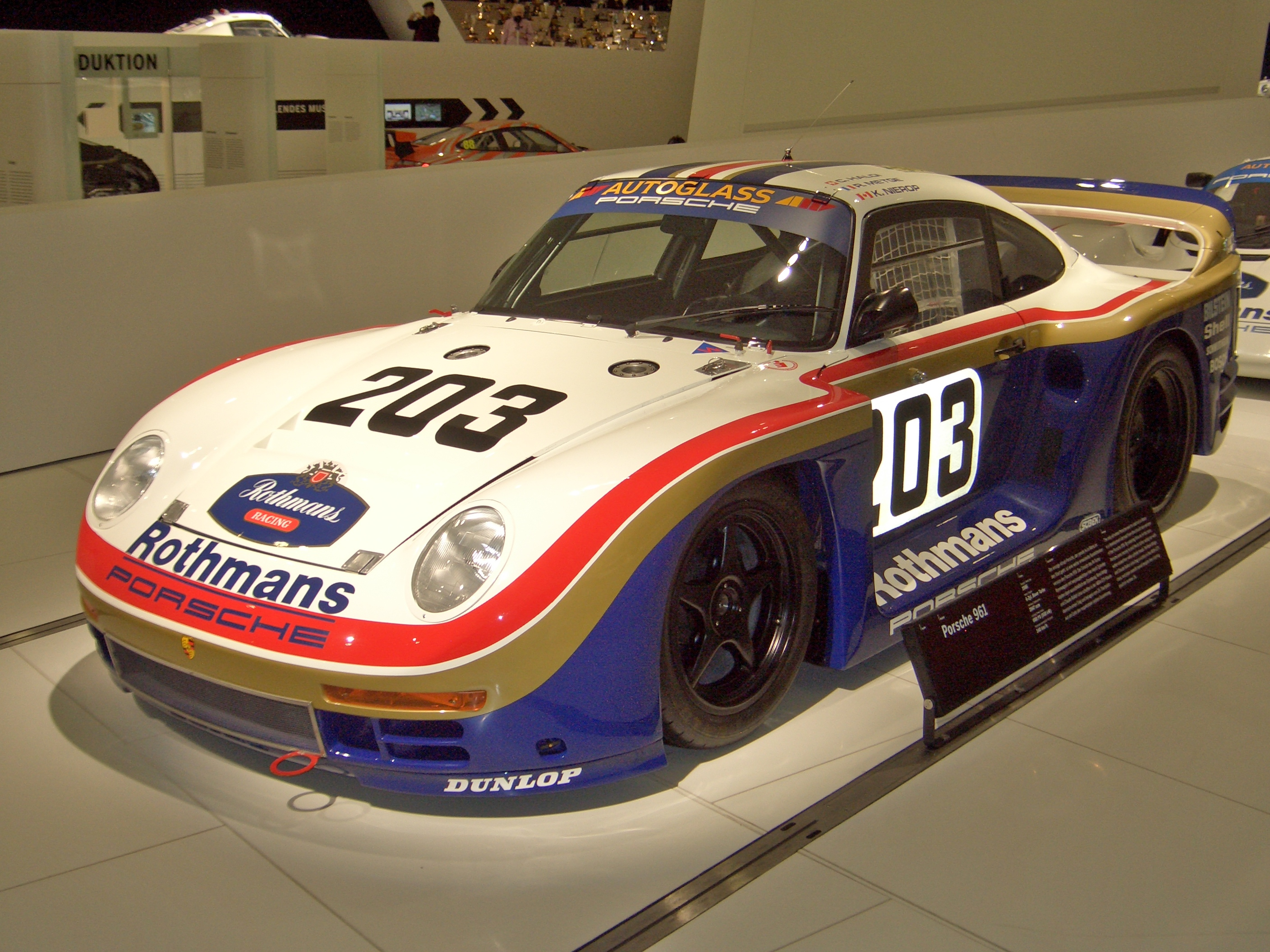 Porsche 961 Coupe (1986) - "Rothmans livery" for 1987 24 Hours of Le Mans (1986 livery was "total white" with Porsche logo on doors) - seen at PORSCHE MUSEUM in Stuttgart, Germany.